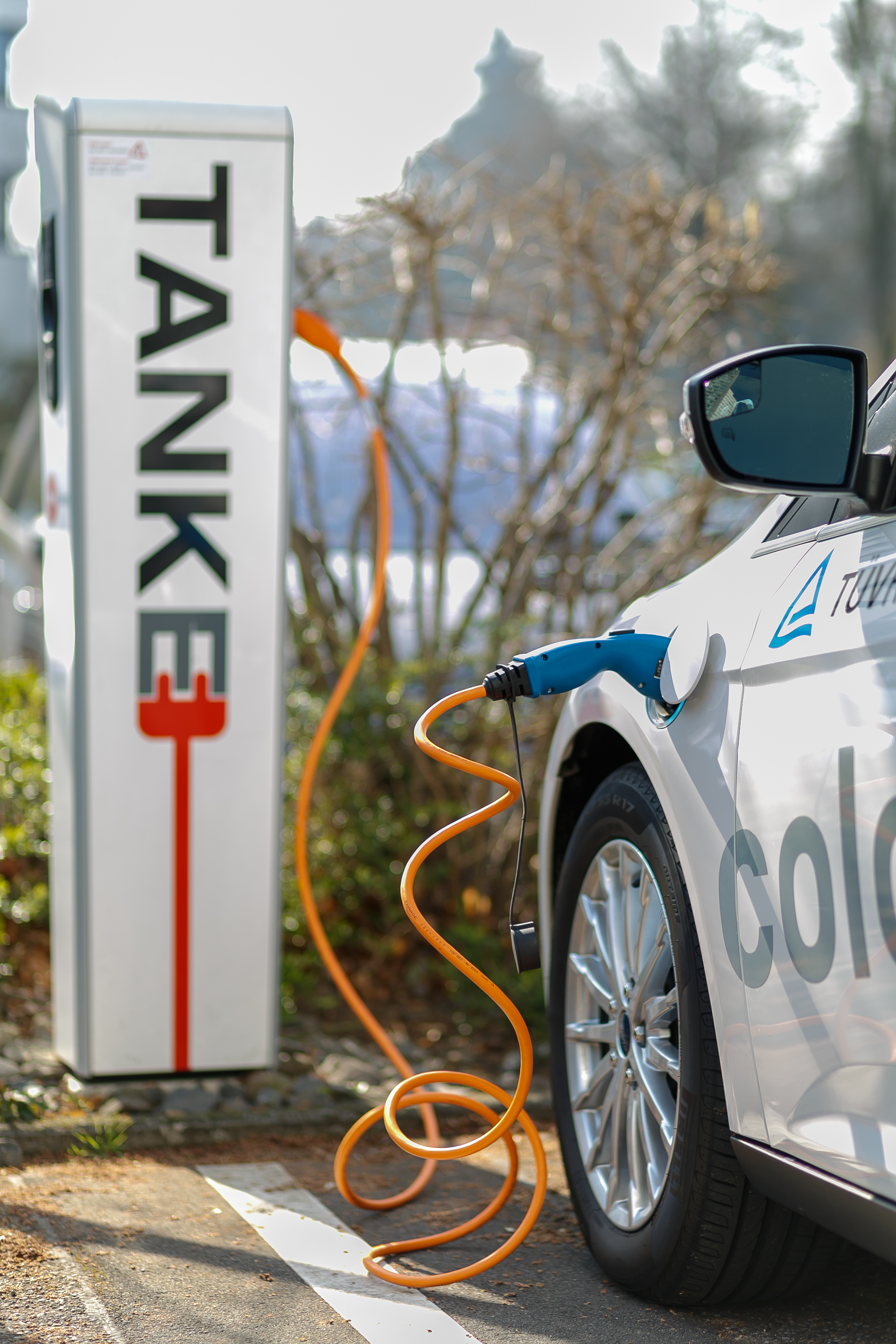 Cologne, Germany: Electric Car Charging Point at TUV Rheinland Headquarters in Cologne, Germany